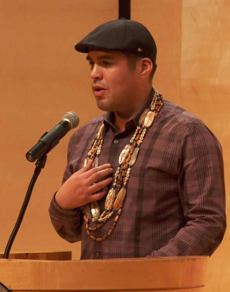 Vincent Medina speaking during the Ohlone Spoken Word at the San Francisco Public Library in 2014